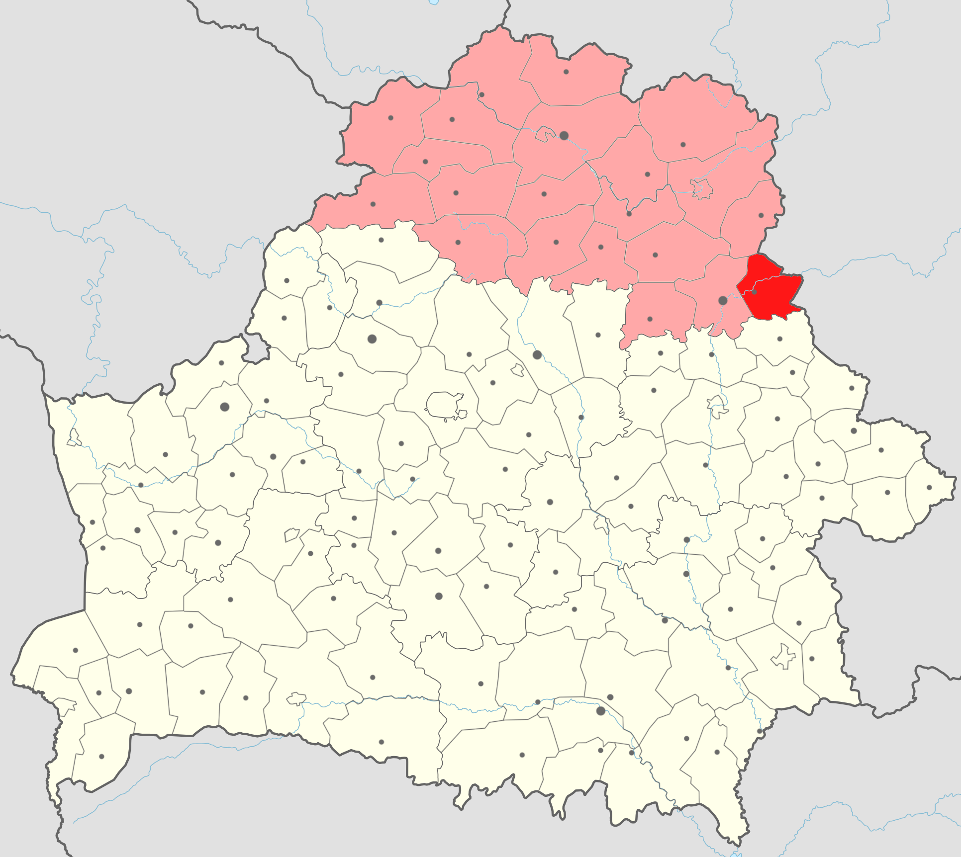 Map of Dubrovienski raion (in red) with Viciebskaja voblast' (in light red) on the map of Belarus.